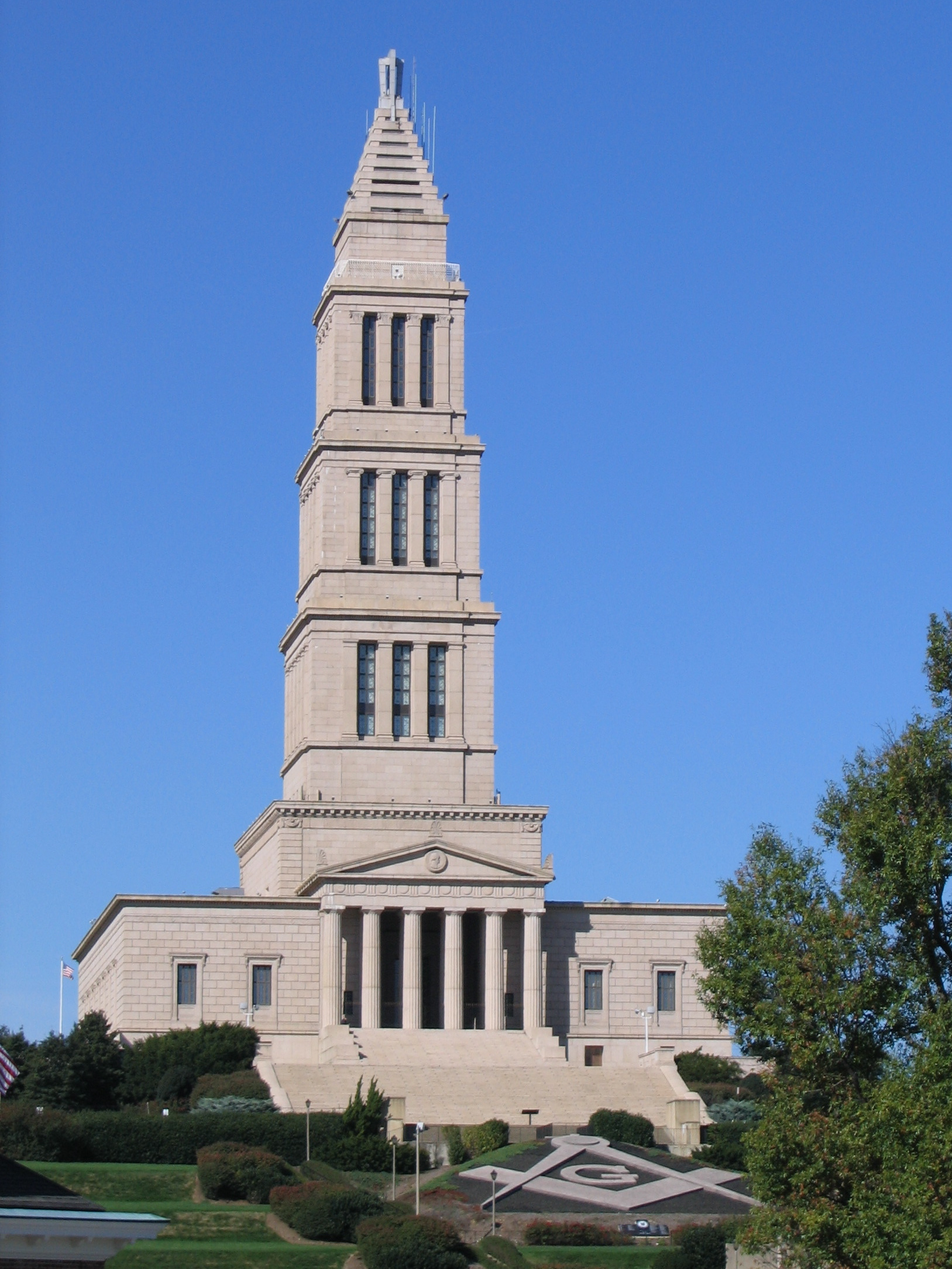 The George Washington Masonic National Memorial from the King Street Washington Metro Station.